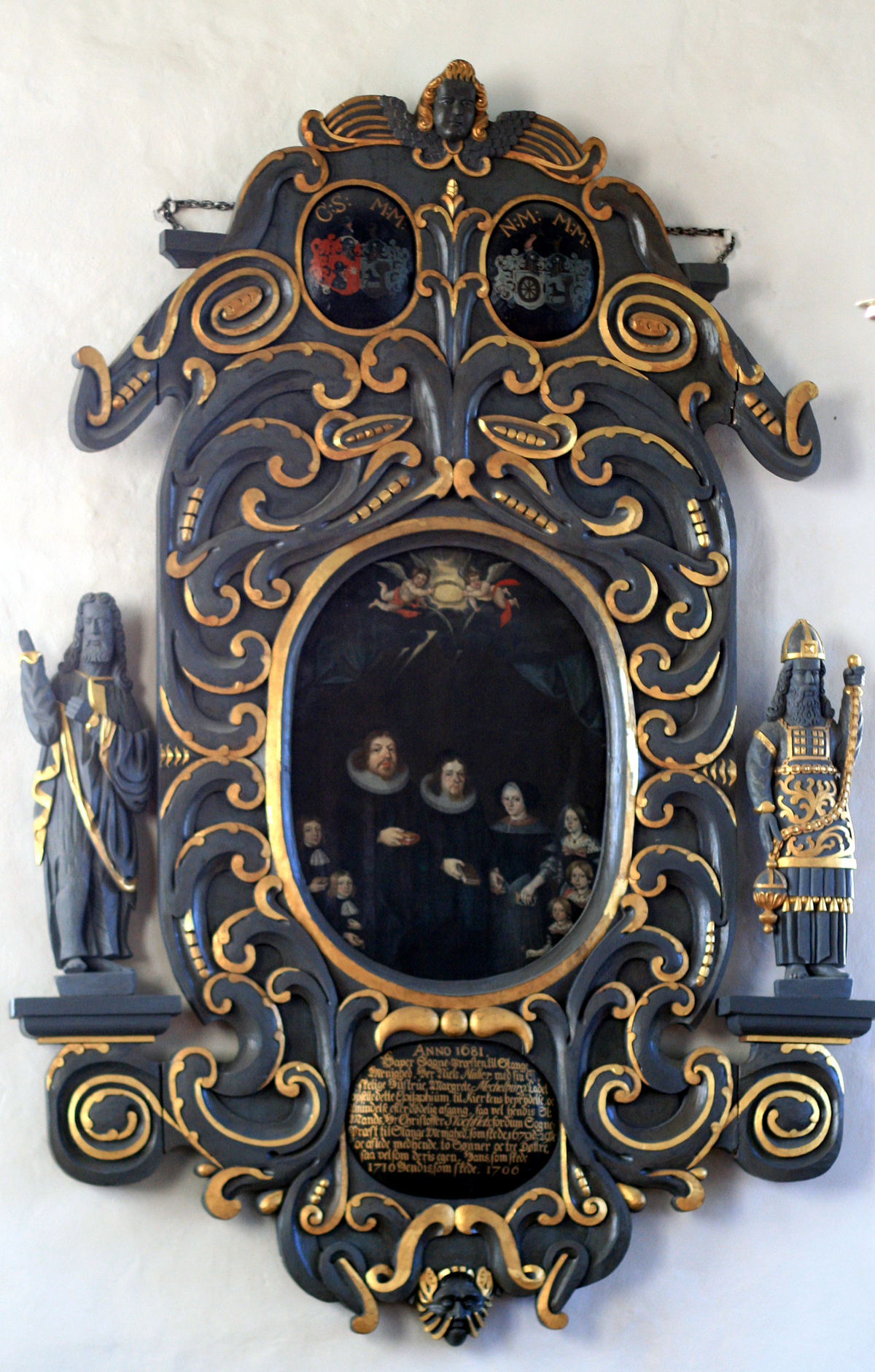 Epitaph in Stange church, Norway.